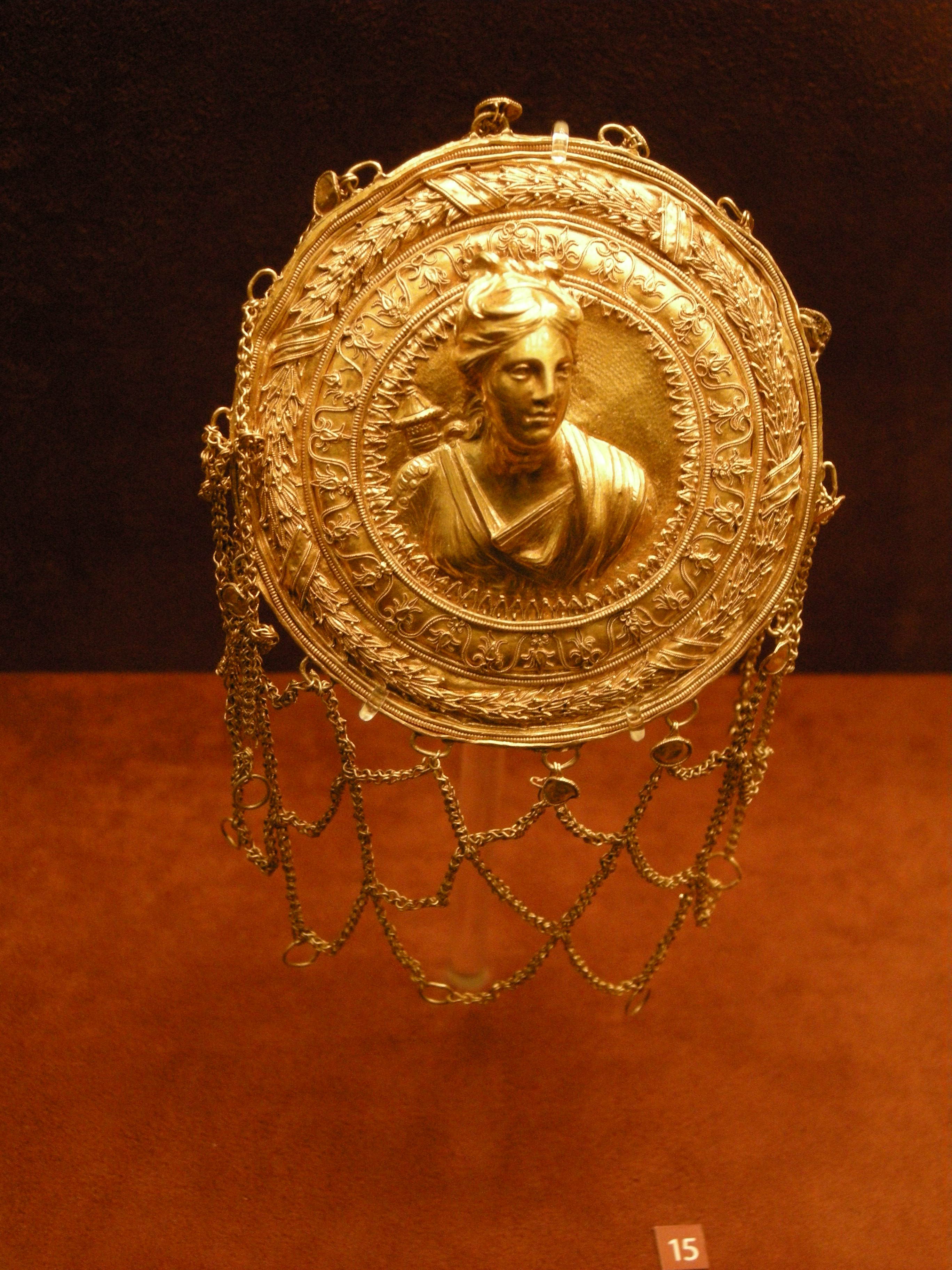 Jewel for hair, 3rd century BC, Stathatos Collection, National Archaeological Museum of Athens